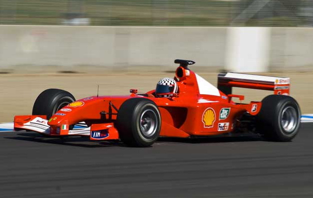 Ferrari_F2001 M Schumacher F1 Champion`s car at Laguna Seca